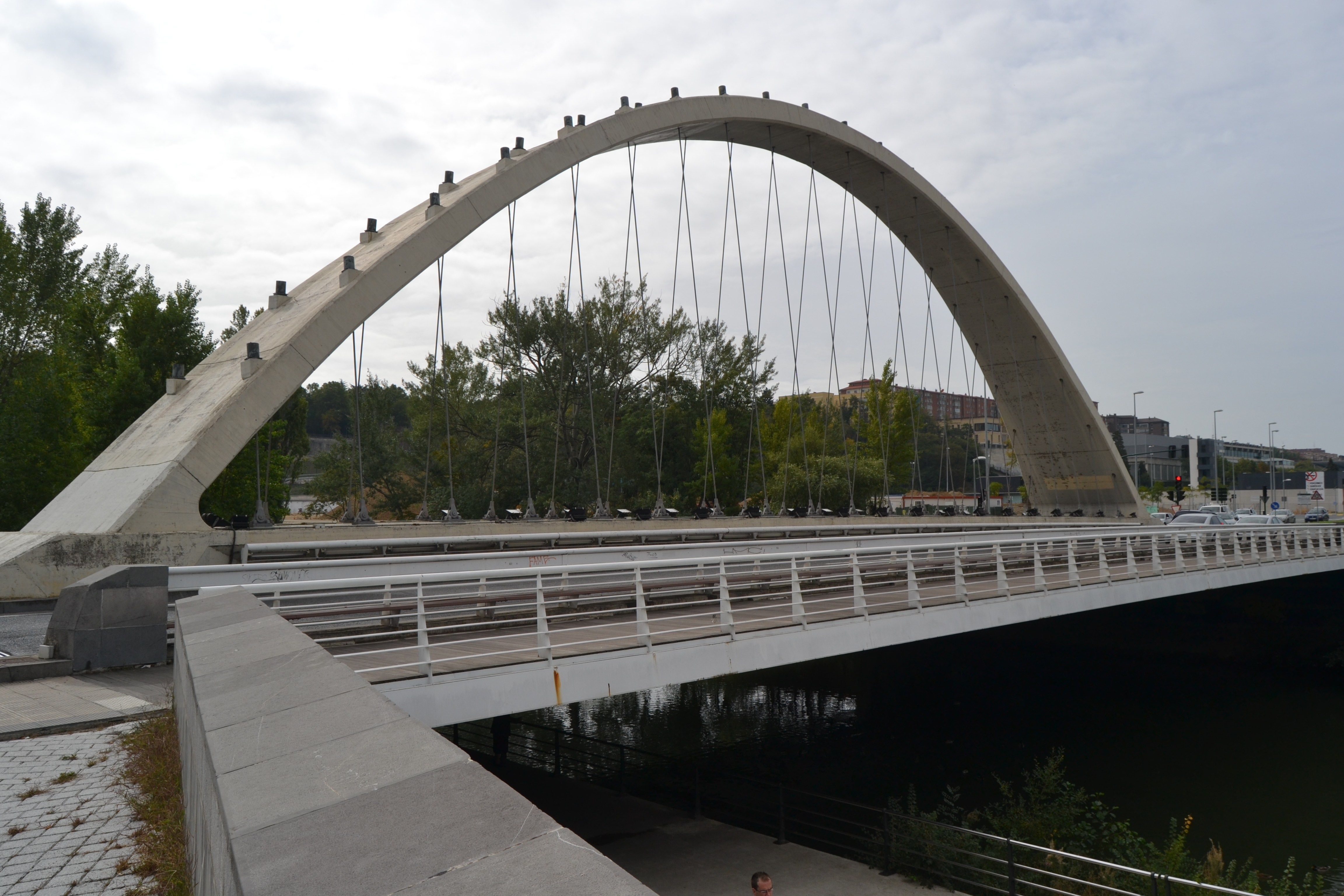 Oblatas Bridge. Iruñea-Pamplona, Navarre. Basque Country.